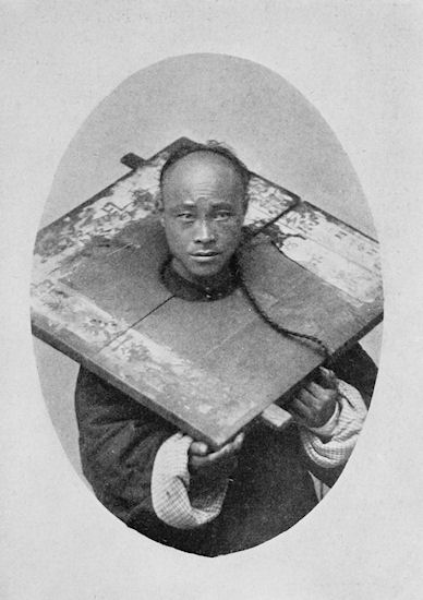 .Simple punishment of a Chinese mendicant